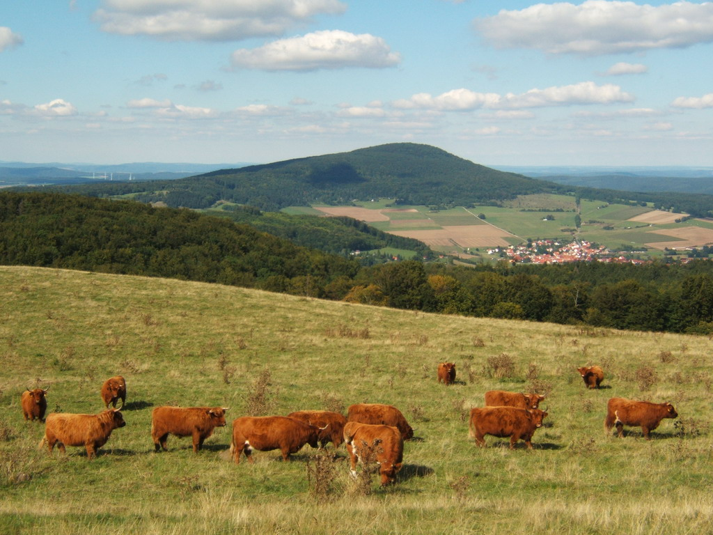 View from the Gläserberg to the Baier and Unteralba. Rhön, Germany. Highland cattle (mix) likely.